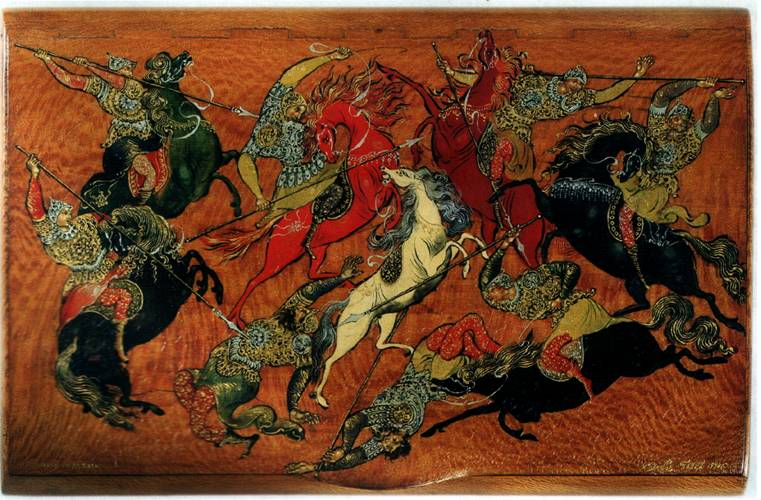 Battle. Palekh minitiature on a cigarette case.